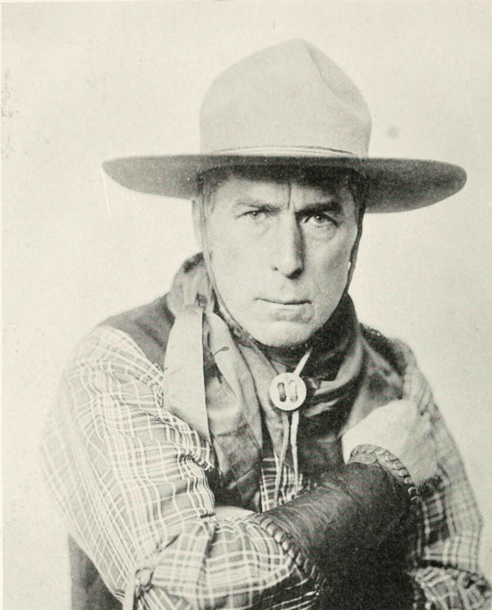 Portrait of Bill Hart in Who's Who on the Screen